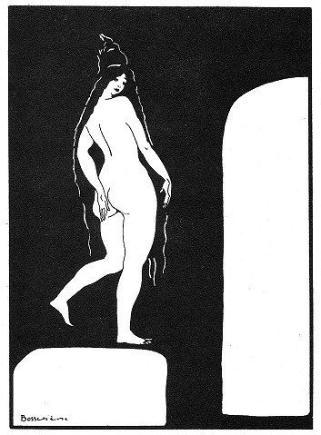 Illustration to Ovid's Art of Love